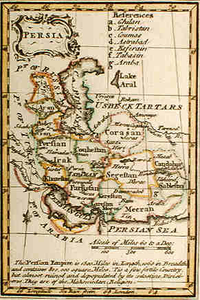 Persian Zand Empire at 1758